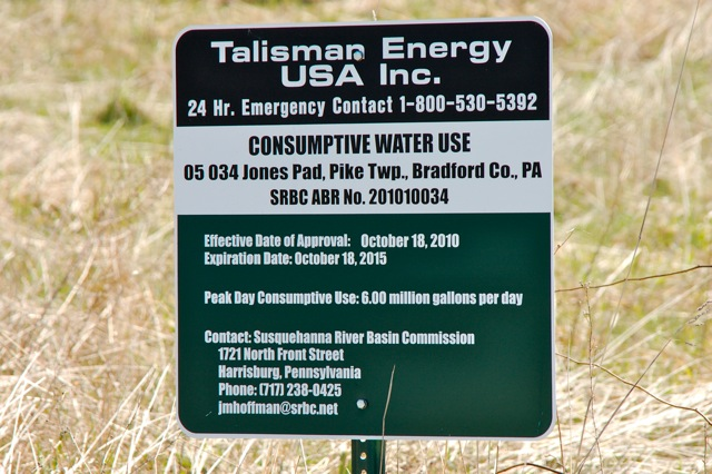 Fracking Site in Warren Center, PA